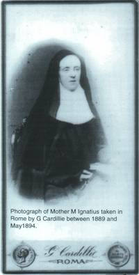 Photograph of Mother Ignatius Hayes, F.M.I.C., taken in the Roman studio of G. Cardillie (1889-1894)